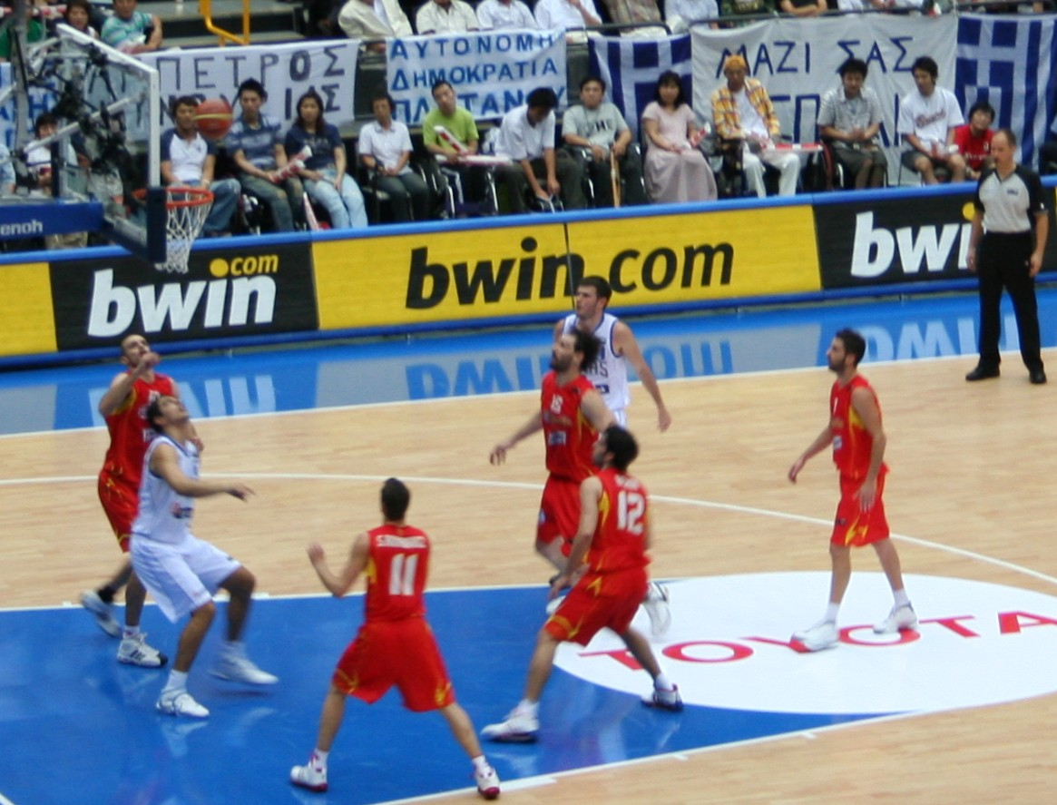 Basketball World Cup 2006 in Japan. Scene from the final between Greece and the new champions, Spain